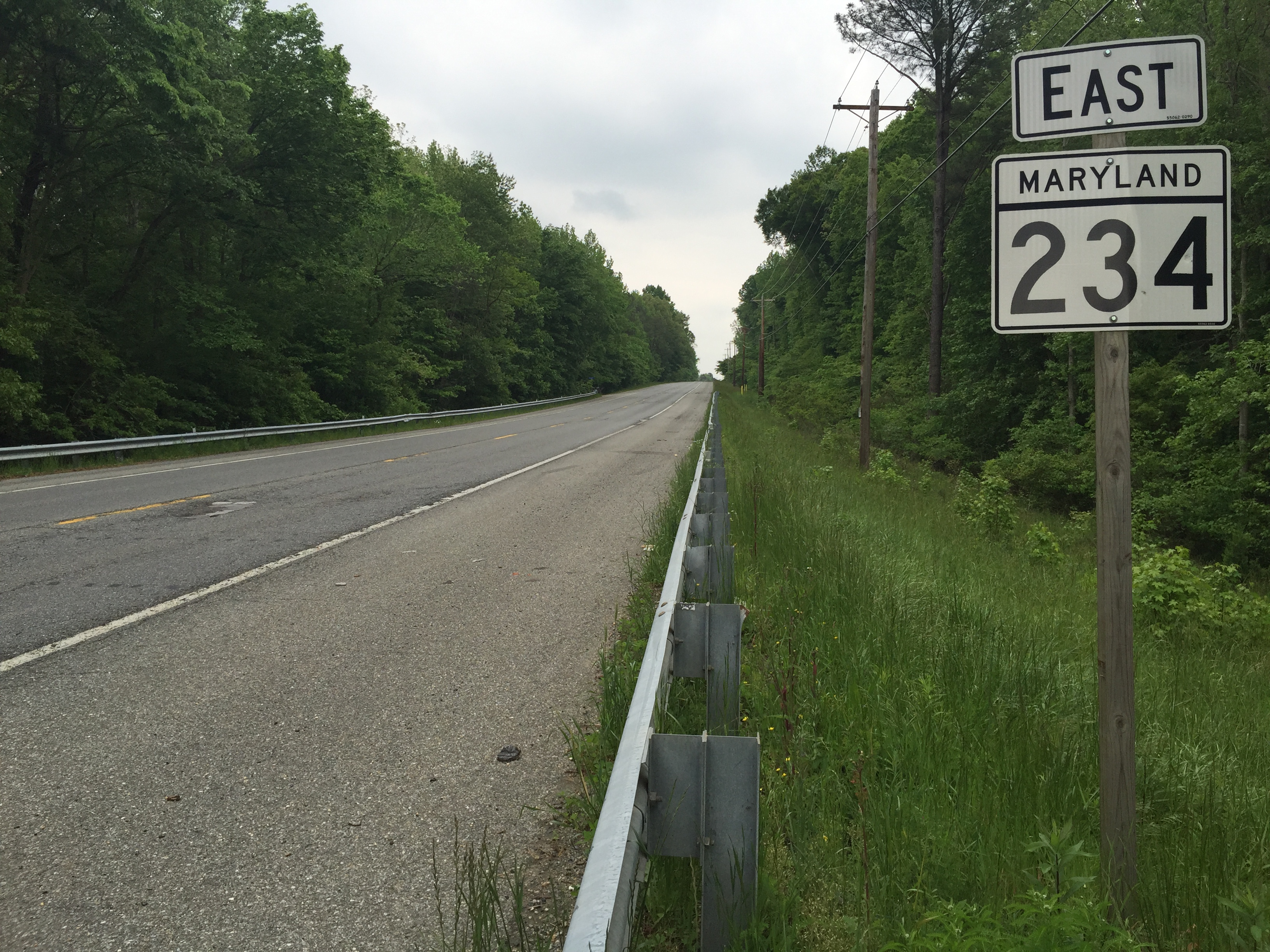 View east along Budds Creek Road (Maryland State Route 234) in Budds Creek, St. Mary's County, Maryland